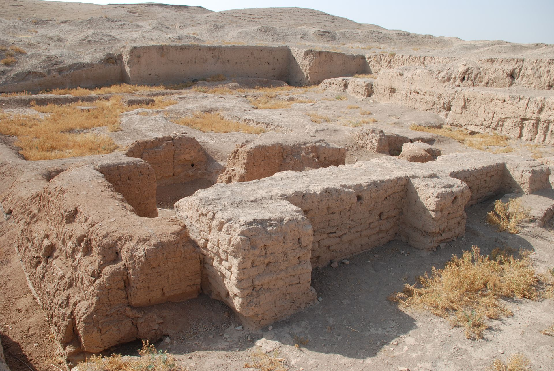 Tell Brak, Syria, Naram-Sin temple, centre from north